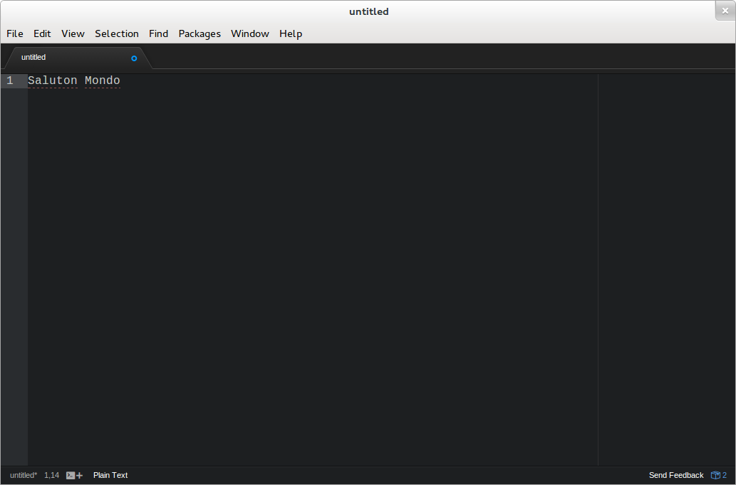 Atom text editor v0.1 on GNOME 3